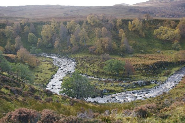 Horseshoe-shaped bend in the River E, 4 km from Bailebeag, Highland, Great Britain.